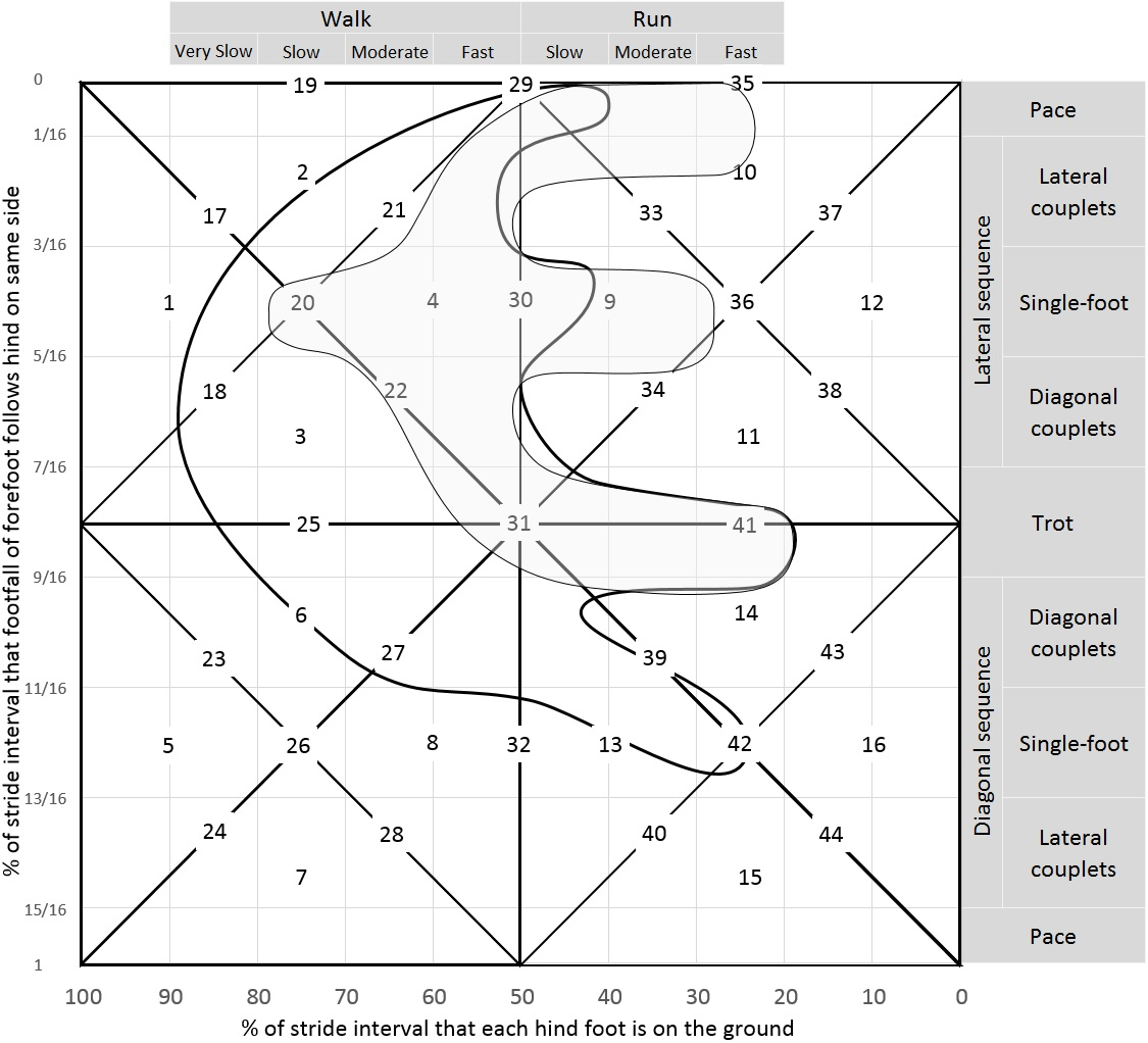 Overlay of gait diagram with the 44 formulas for symmetrical gaits Milton Hildebrand (1976): 'Analysis of tetrapod gaits: general considerations' in Richard M. Herman, Neural Control of Locomotion, Springer